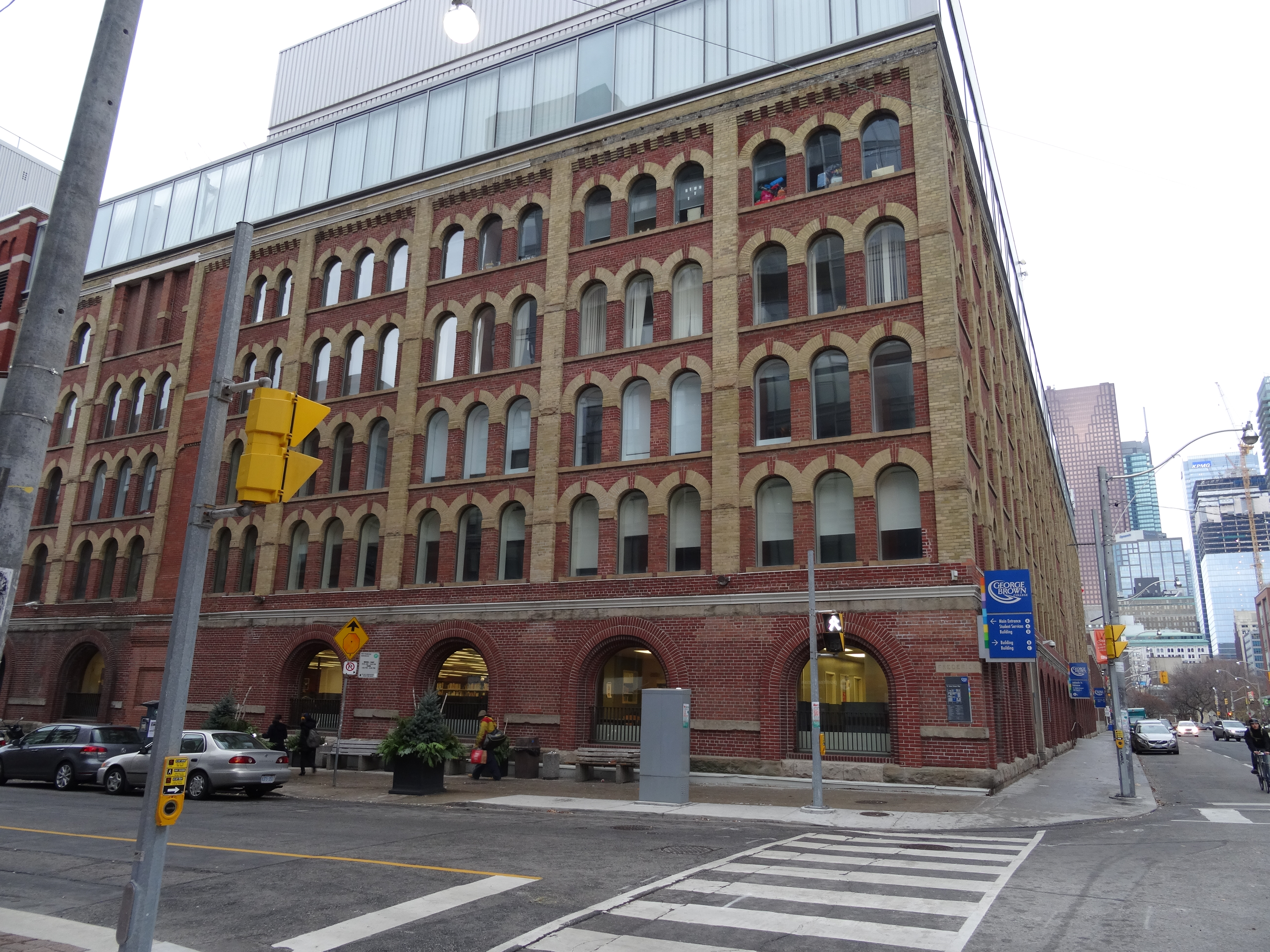 Old Christie biscuit factory, on George Street, now part of George Brown College, 2014 11 30 -z